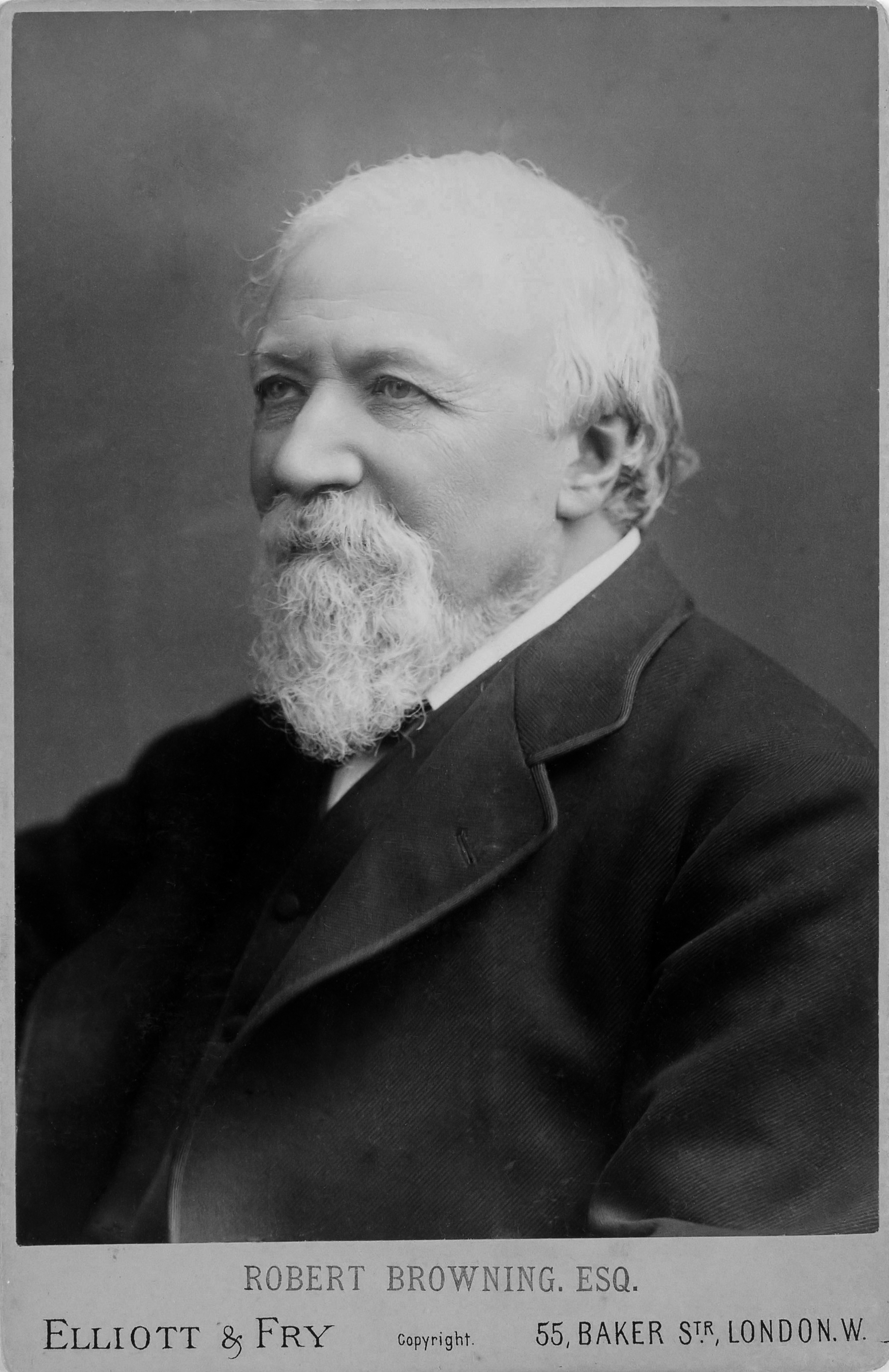 Robert Browning 18 x 12 cm 1880-1884